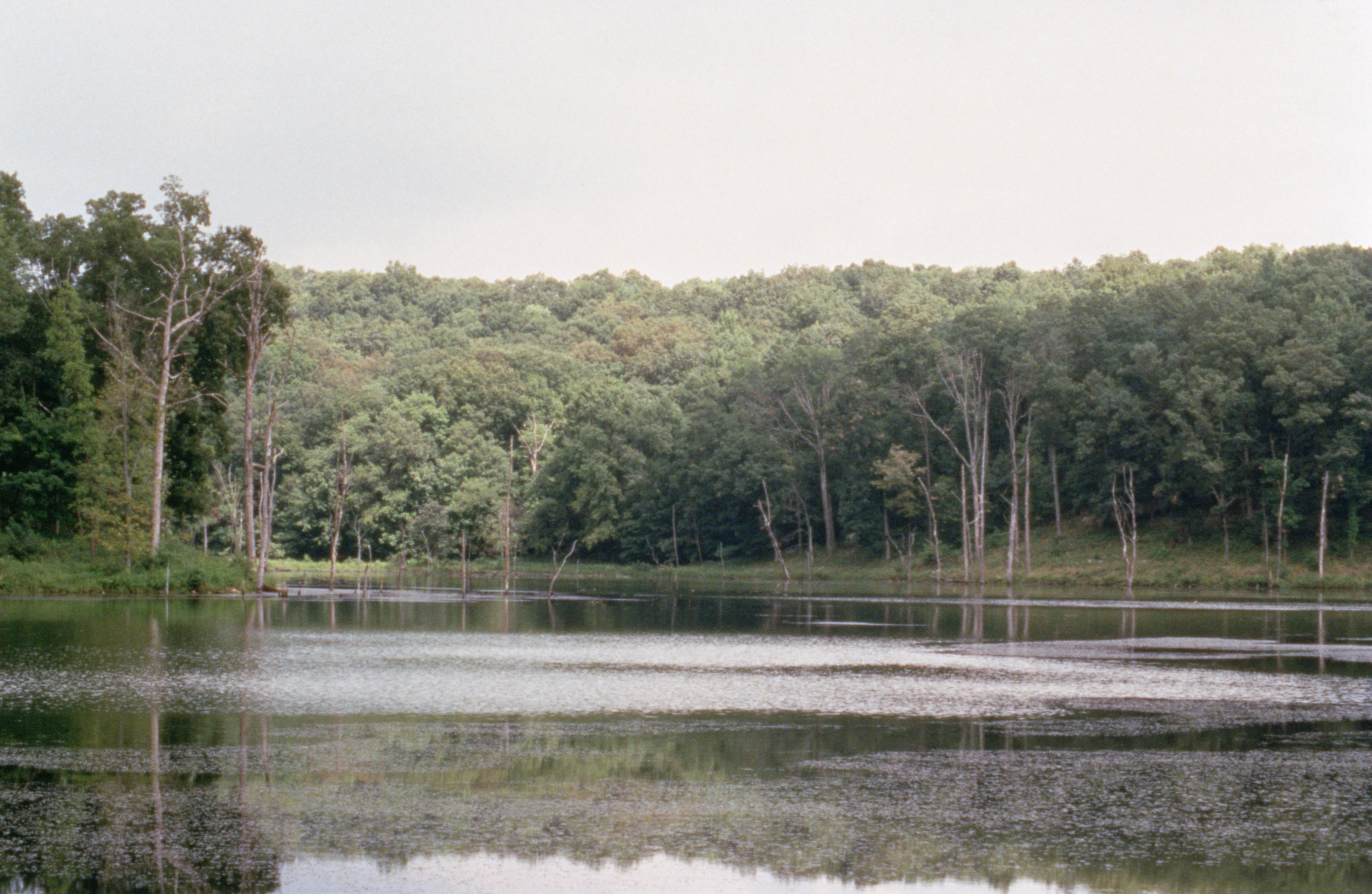 Mingo National Wildlife Refuge